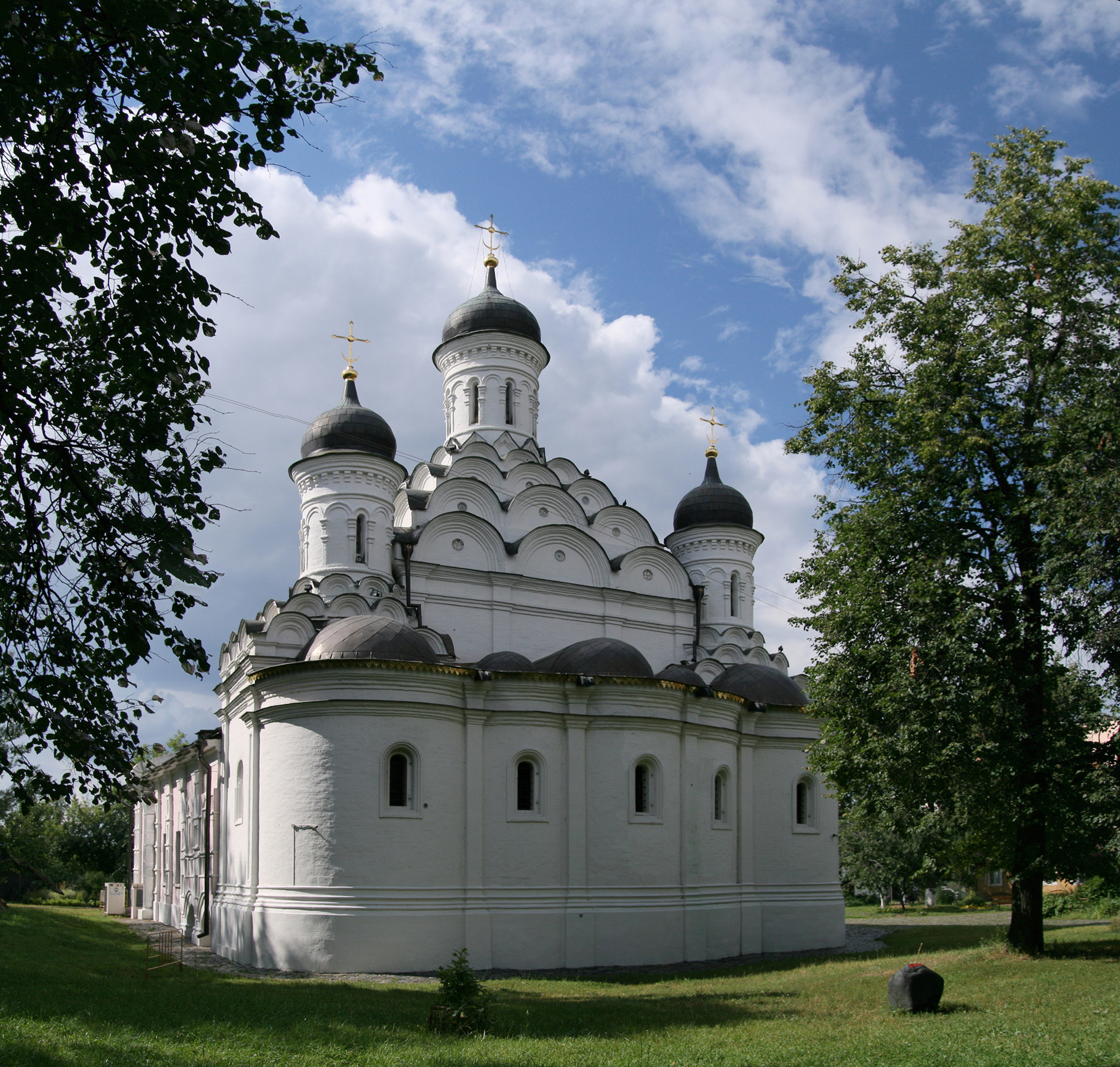 Holy Trinity Church in Khoroshevo, 1696-1698